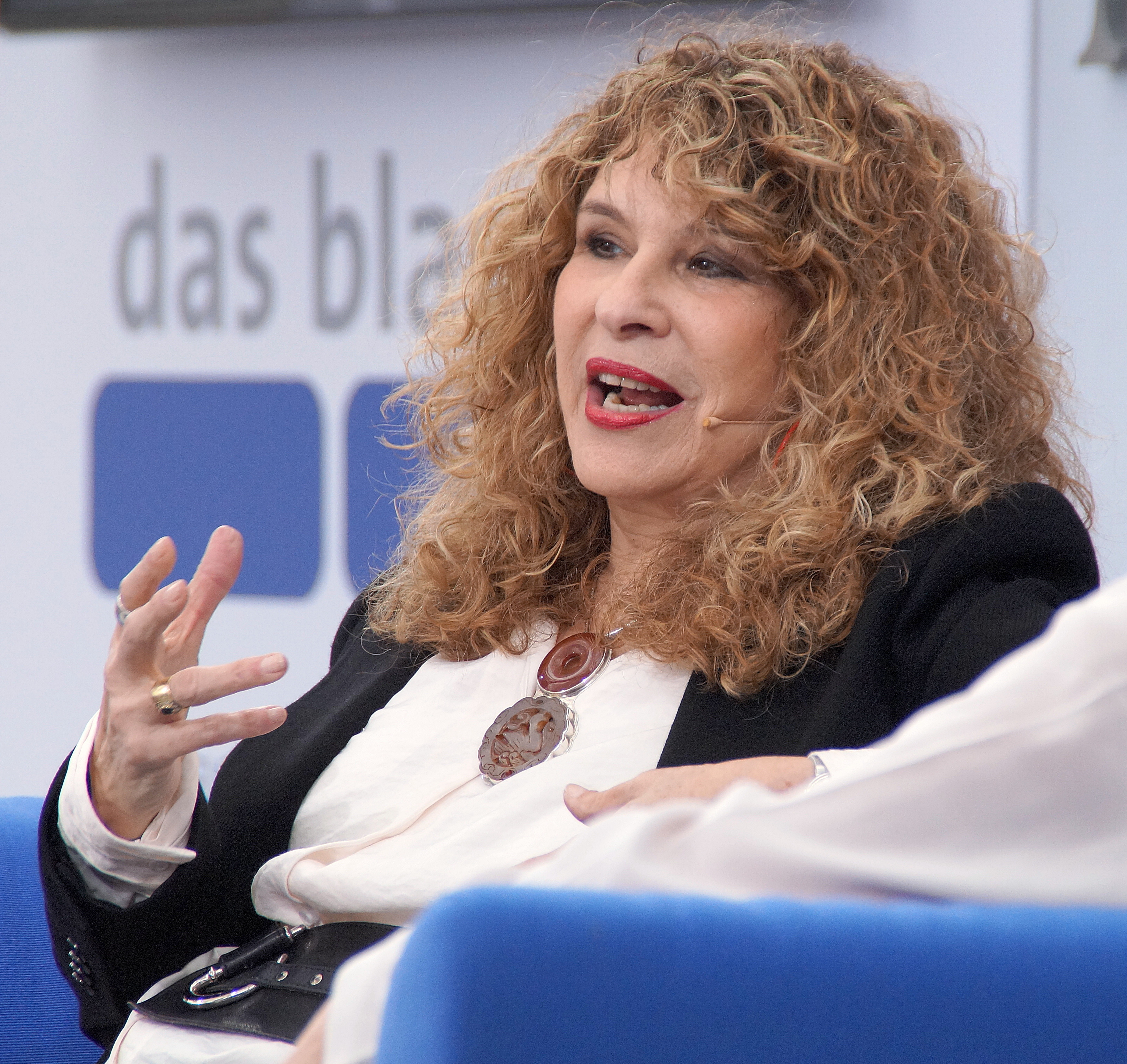 Gioconda Belli talks about her novel "El intenso calor de la luna" (2014) at Leipzig Book Fair 2016.